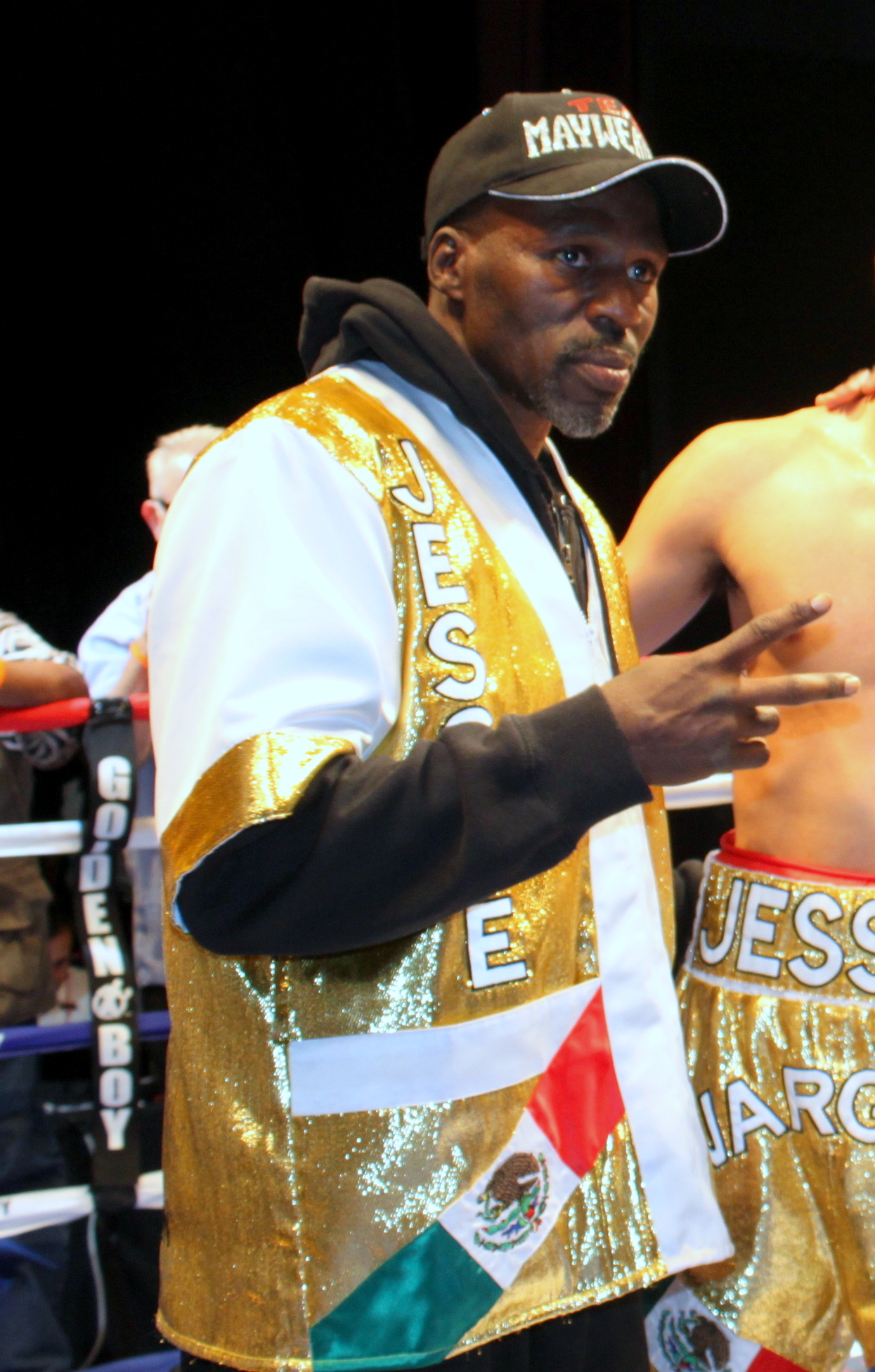 Roger Mayweather at Fight Night Club event at the Club Nokia in Los Angeles, California, United States.